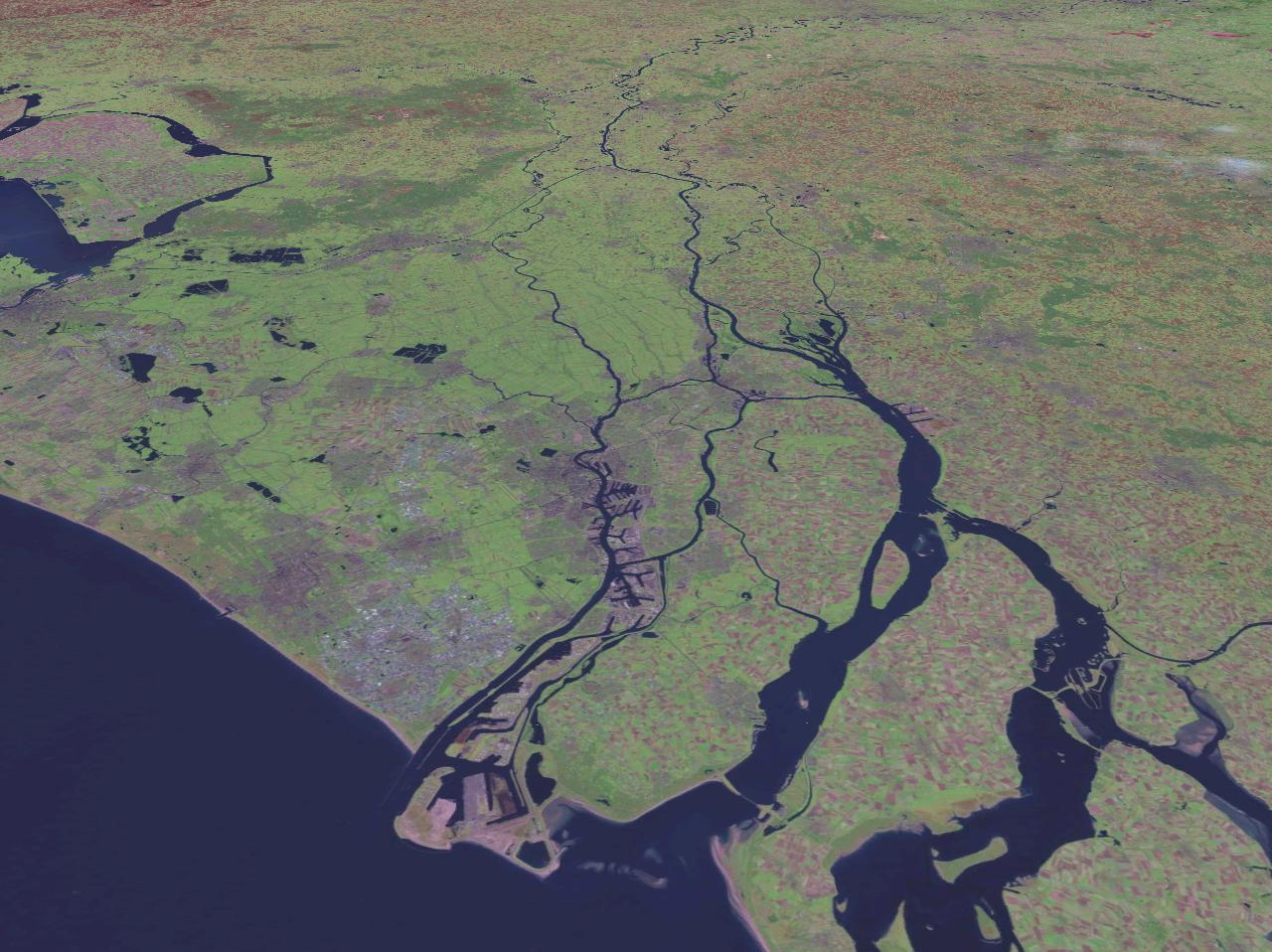 Satellite pictures of the Netherlands